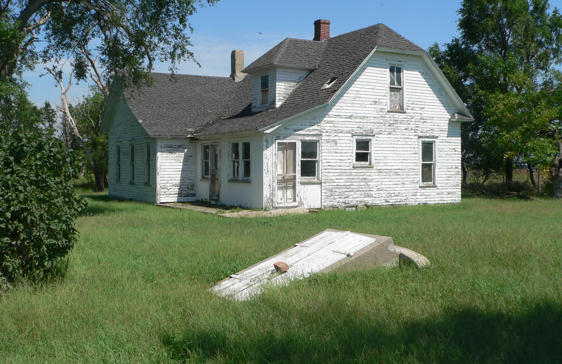 House and cellar at Pavelka farmstead, located southeast of Bladen, Nebraska; seen from southwest.